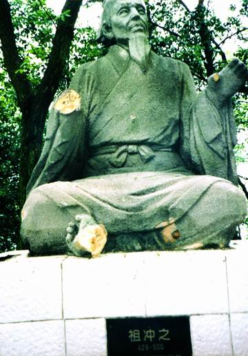 Damaged Zhu Chung Zih bronze staute.